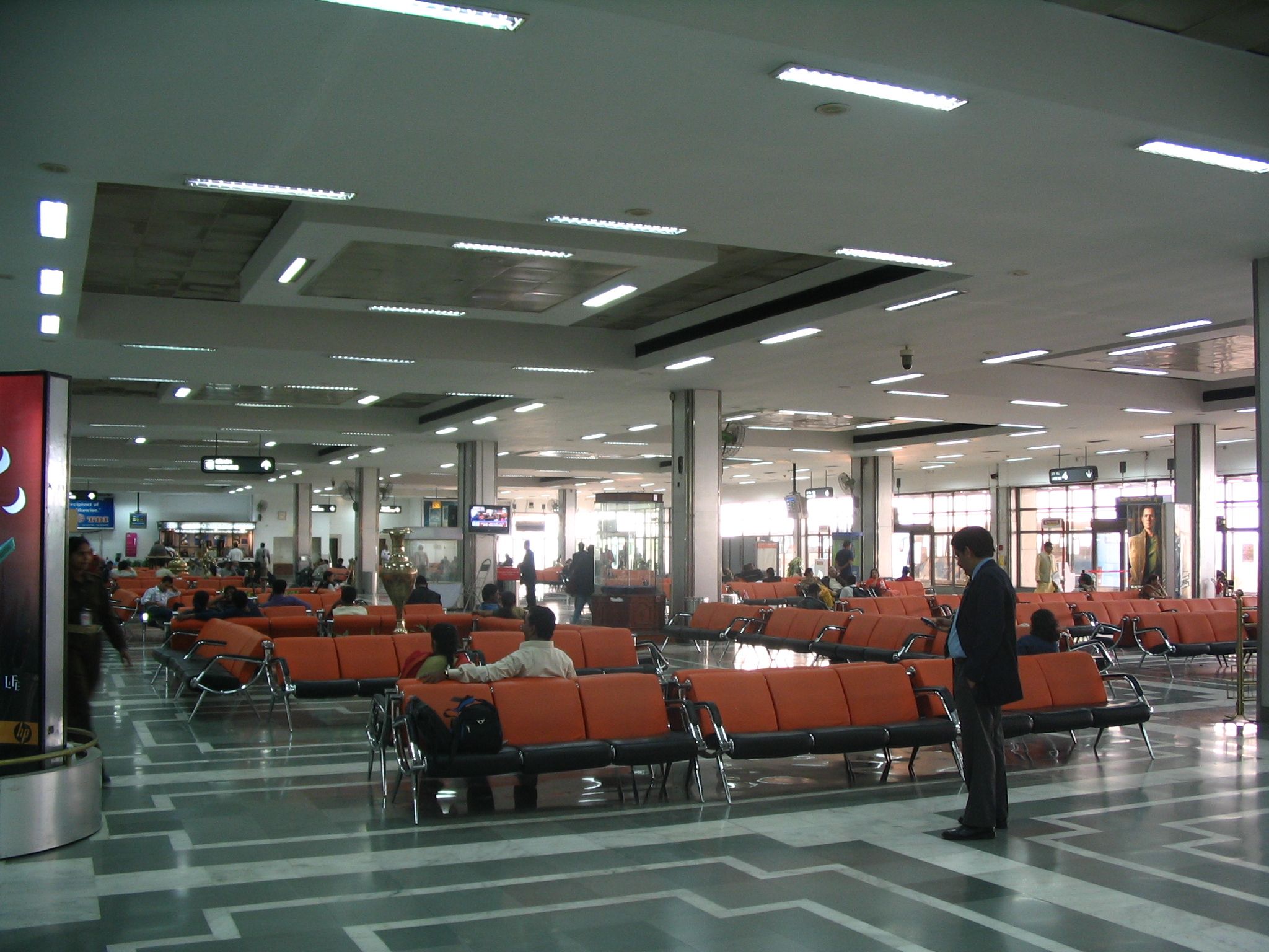 Security hold area of domestic departure terminal 1A of the Indira Gandhi International Airport, New Delhi, India